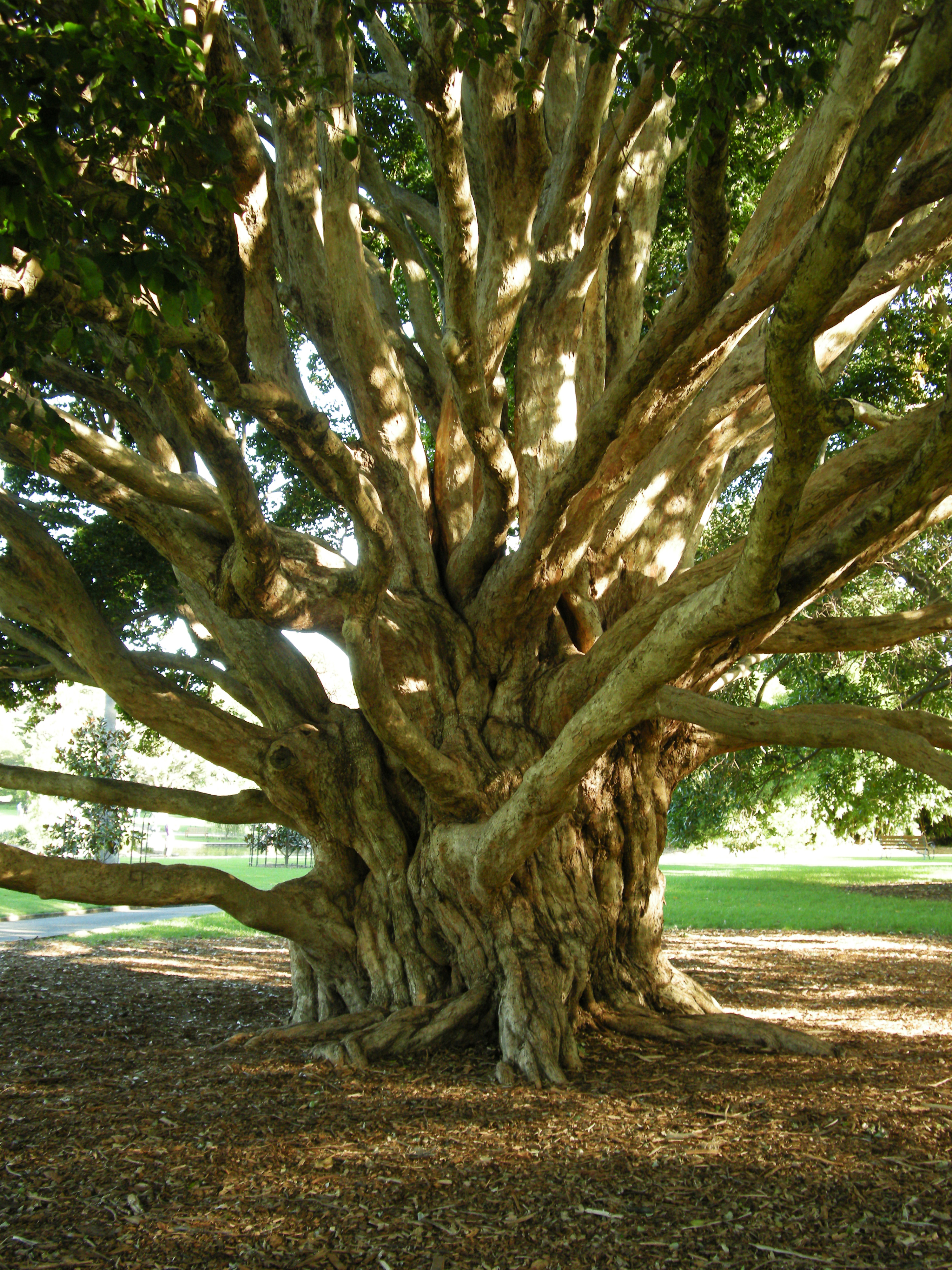 Syzygium francisii (Francis's water gum)